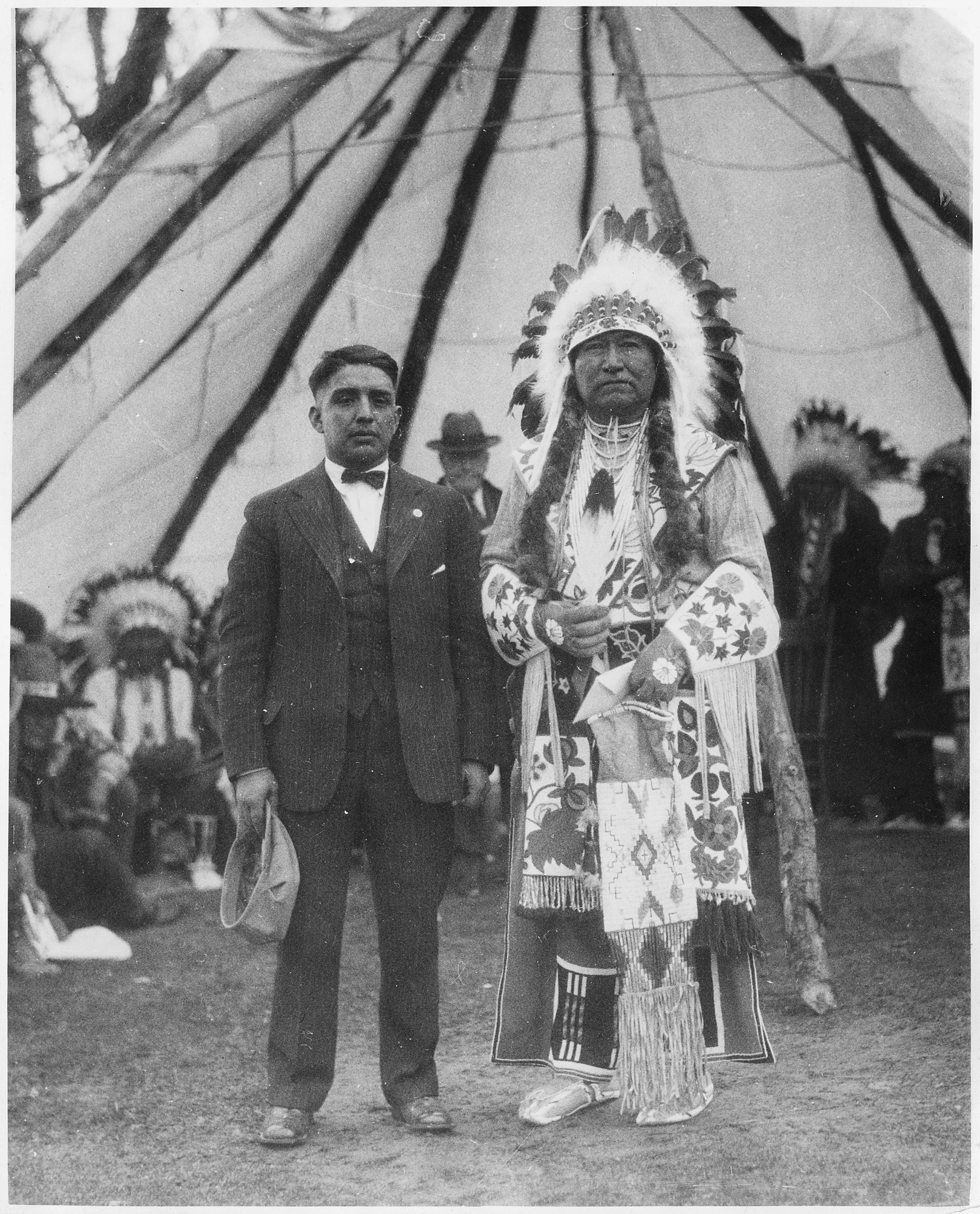 Scope and content: Records document the activites of George LaVatta as Organizational Field Agent in the 1930's. Included are records and photos conerning construction at various agencies, the reorganization of the Bureau of Indian Affairs, and photos and reports of various Indian schools.